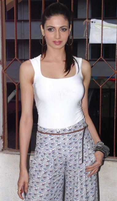 Simran Kaur Mundi at Bharat & Dorris Bridal Make Up Show